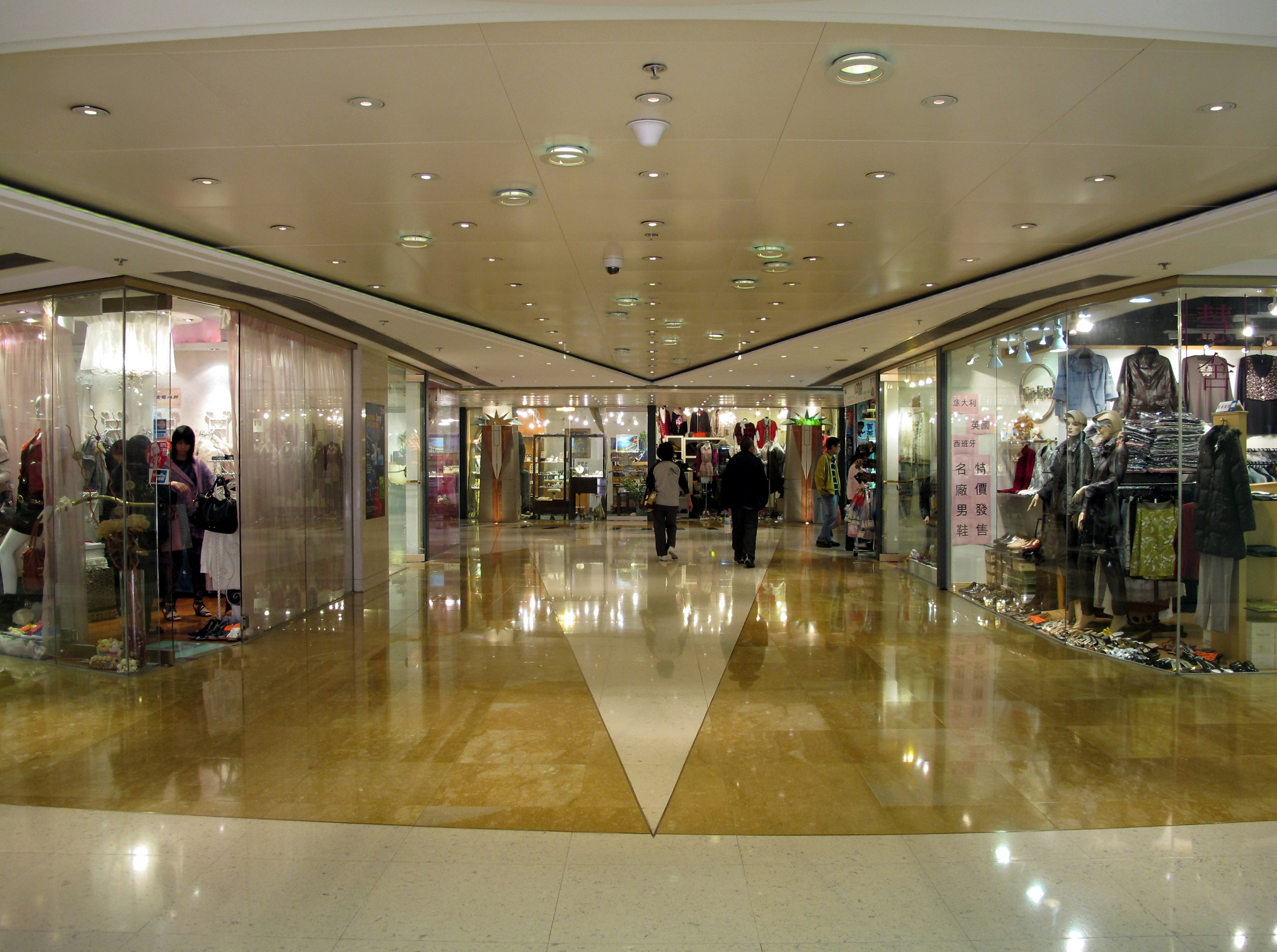 Sunshine City Plaza Phase 5